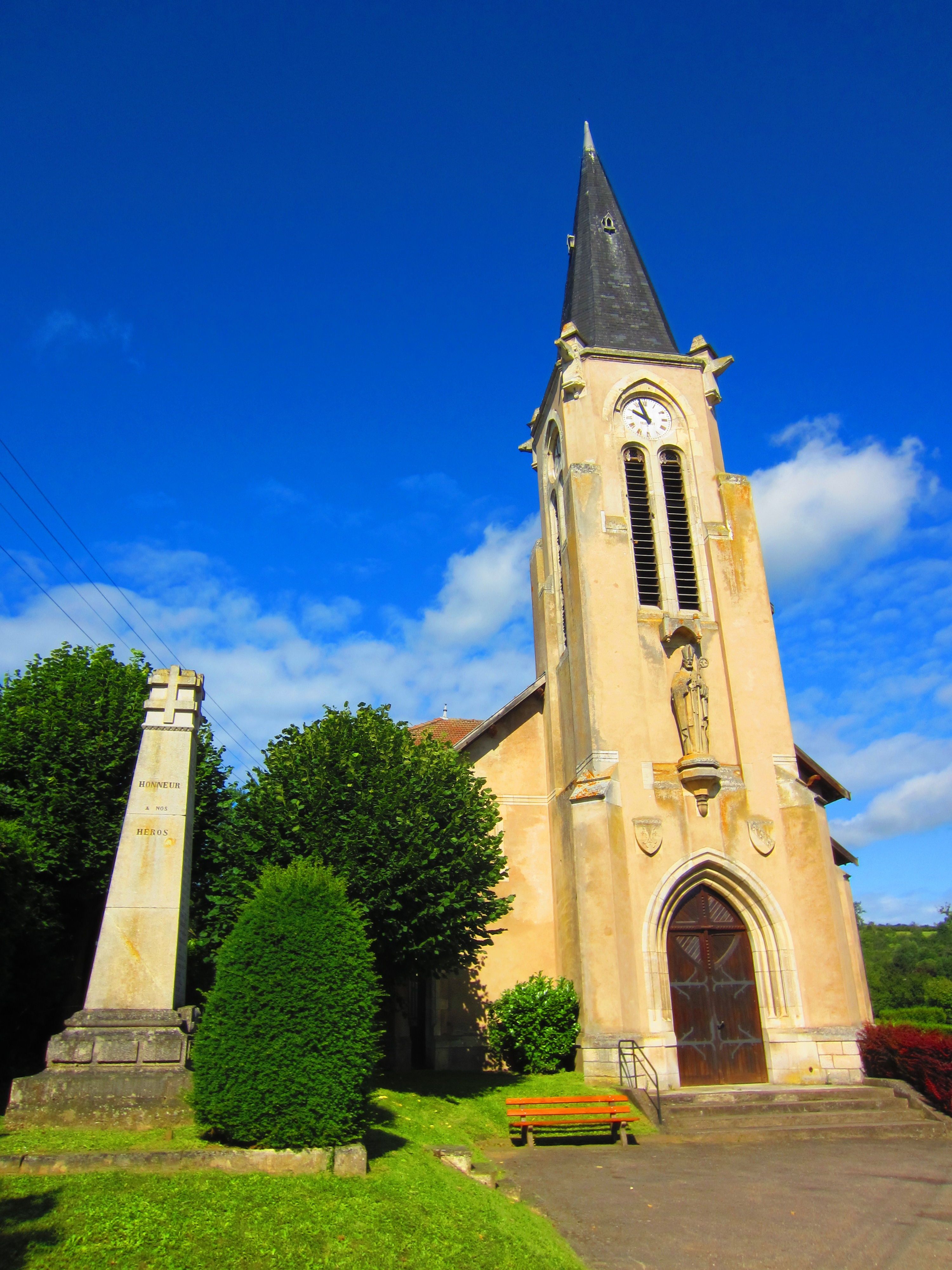 Lesmenils church